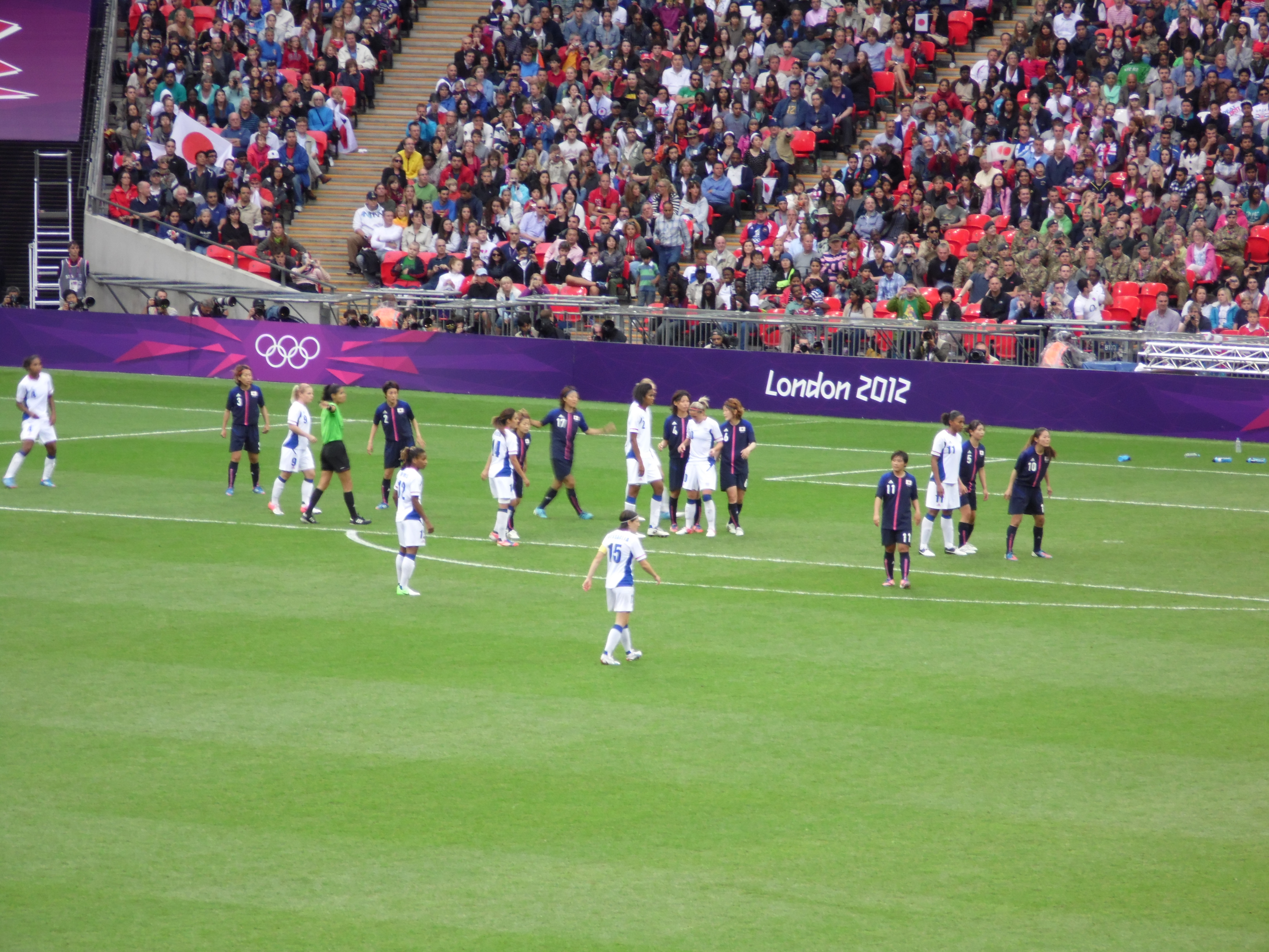 France vs. Japan at the 2012 Summer Olympics.